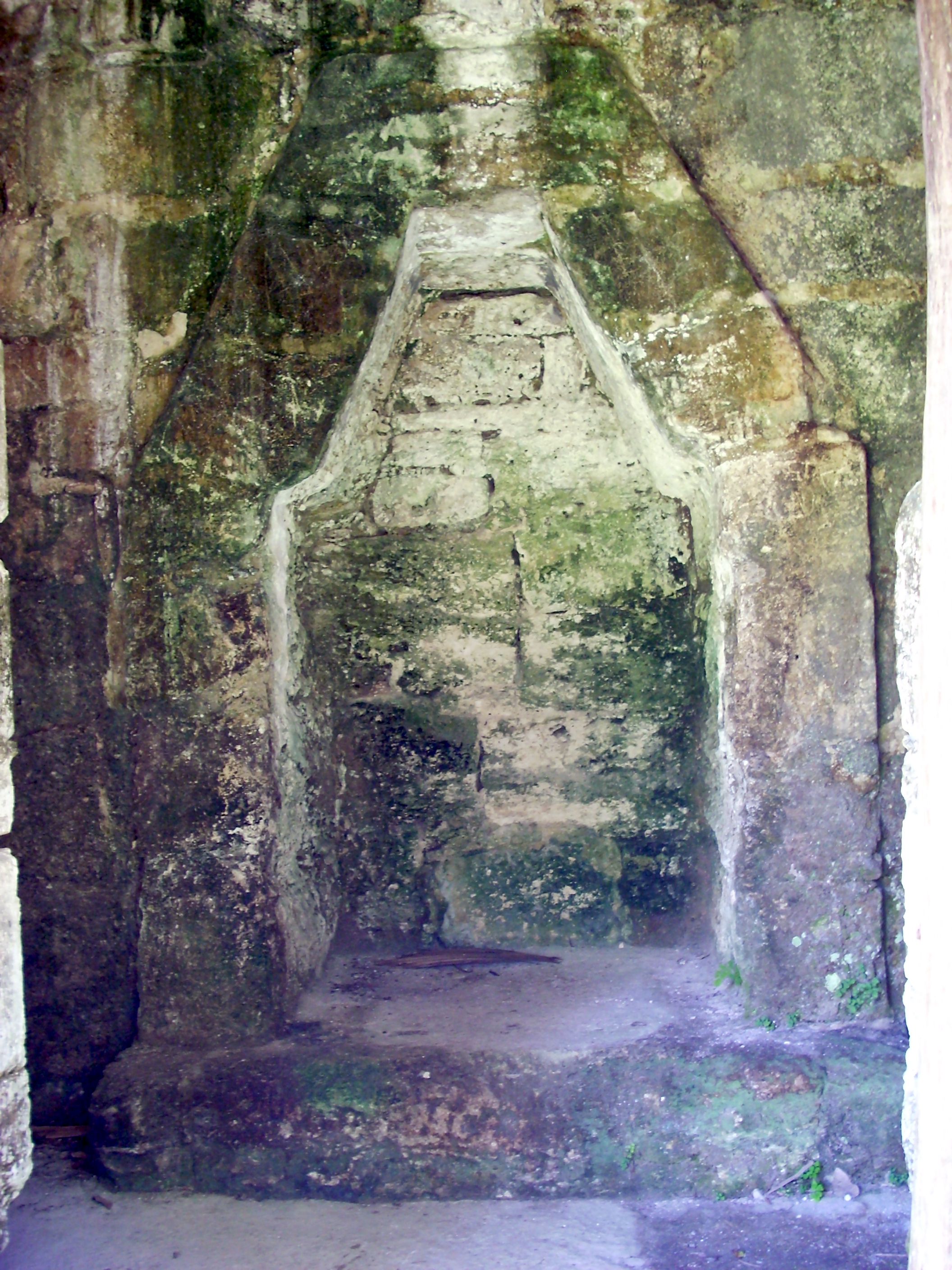 Niche on the west side of the Temple of the Skulls (5D-87), in the Lost World complex of Tikal, Peten, Guatemala.